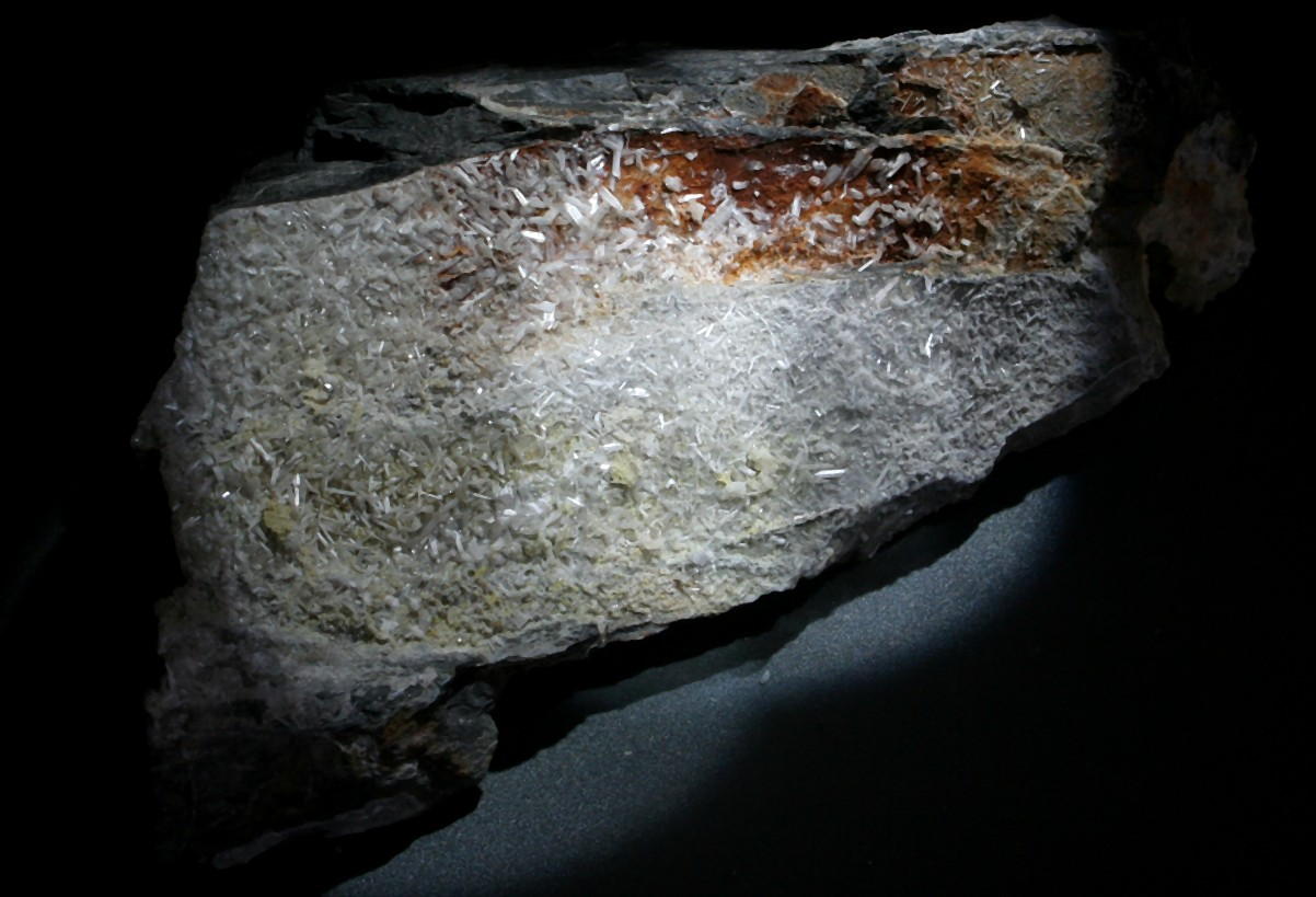 Cerussite (Mineral)